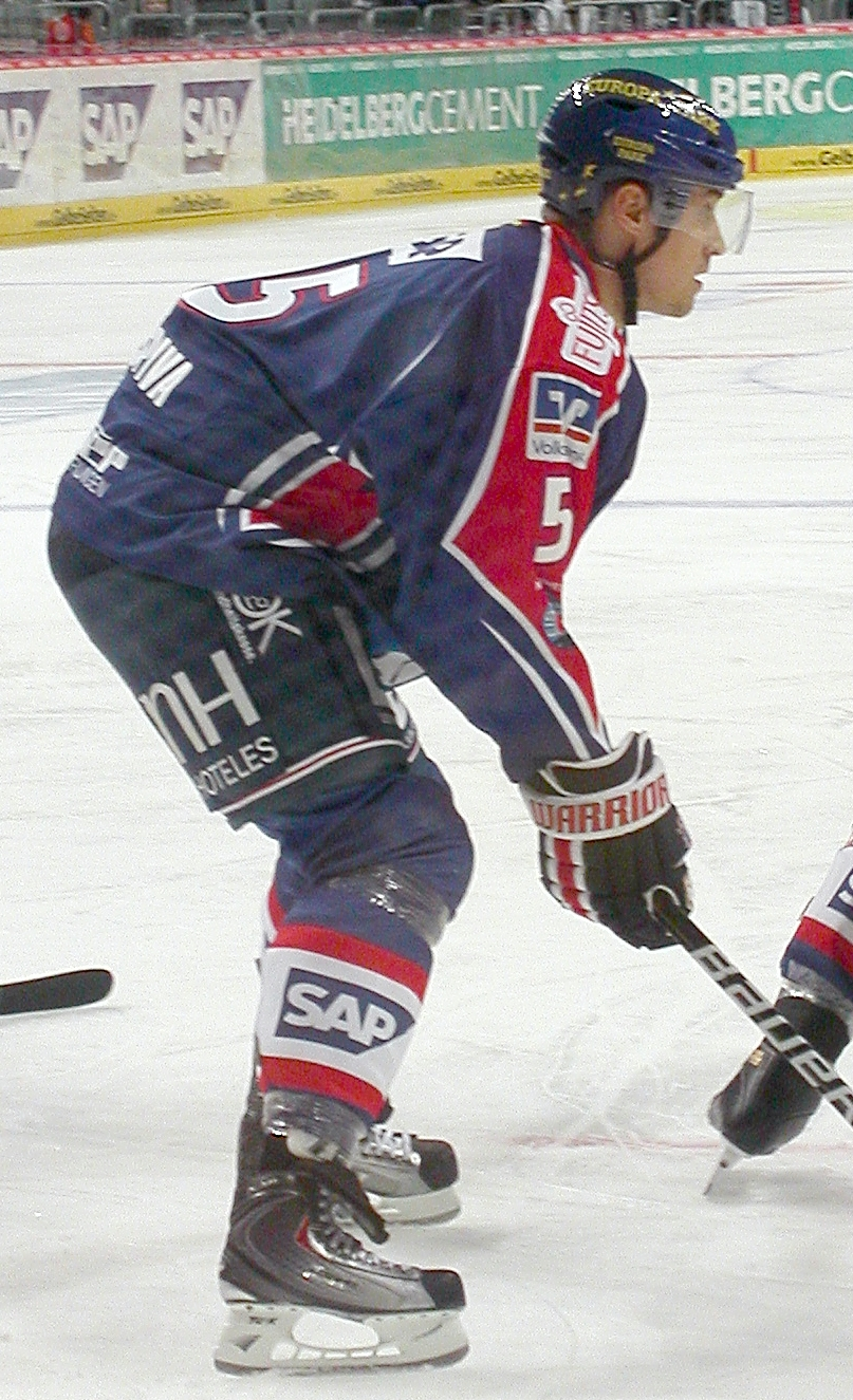 David Cespiva, Ice hockey player from Germany, defender